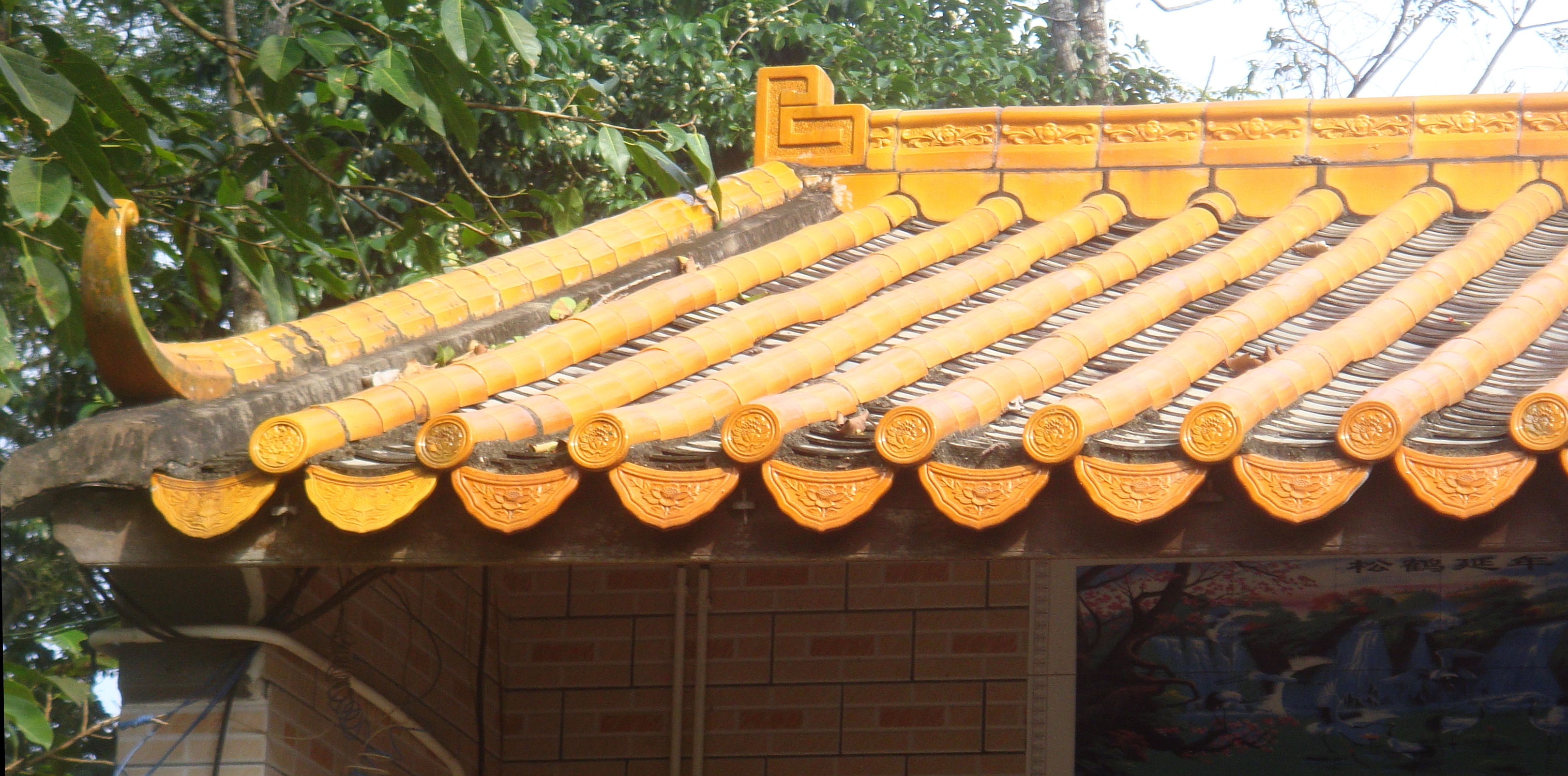 Tiled temple roof in Hainan, China